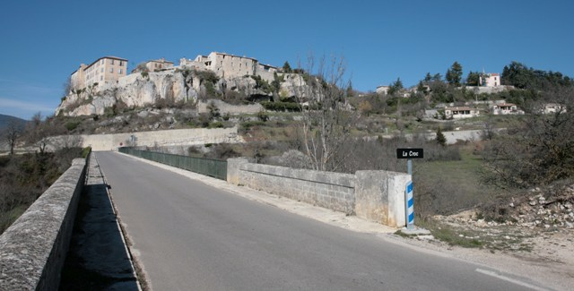 the village of Sault, France